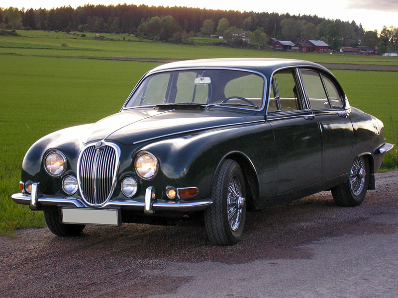 This is a picture I took of my car, a 1966 Jaguar 3.8 S. The picture is taken in Lagga, Sweden, may 2006.